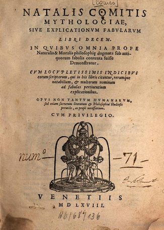 Frontpage of first edition of Mythologia (1568) by Natalis Comes (ca 1520 – ca 1582)